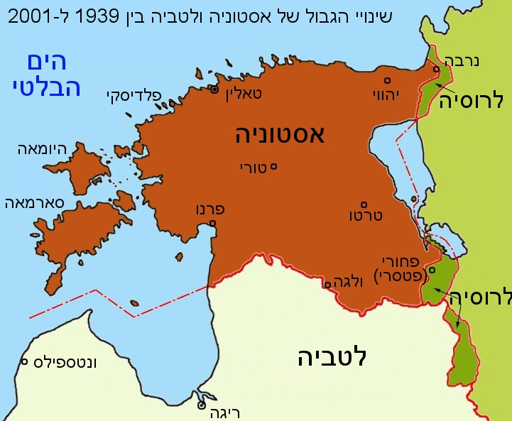 Baltic states borders changes